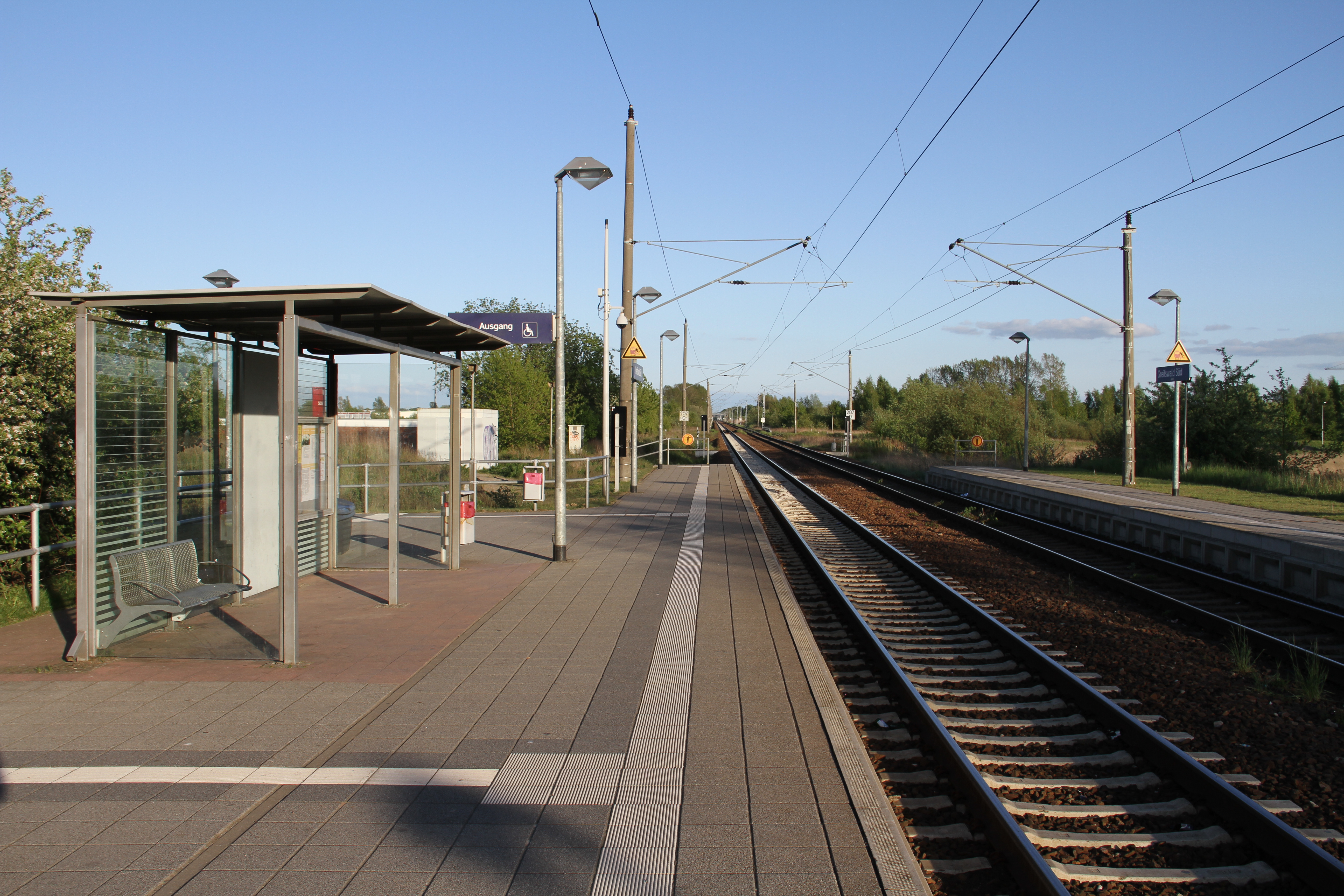 Bahnhof Greifswald Süd (Greifswald south) in May 2012.